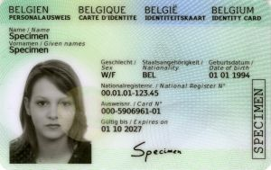 National identity card of Belgium (German)